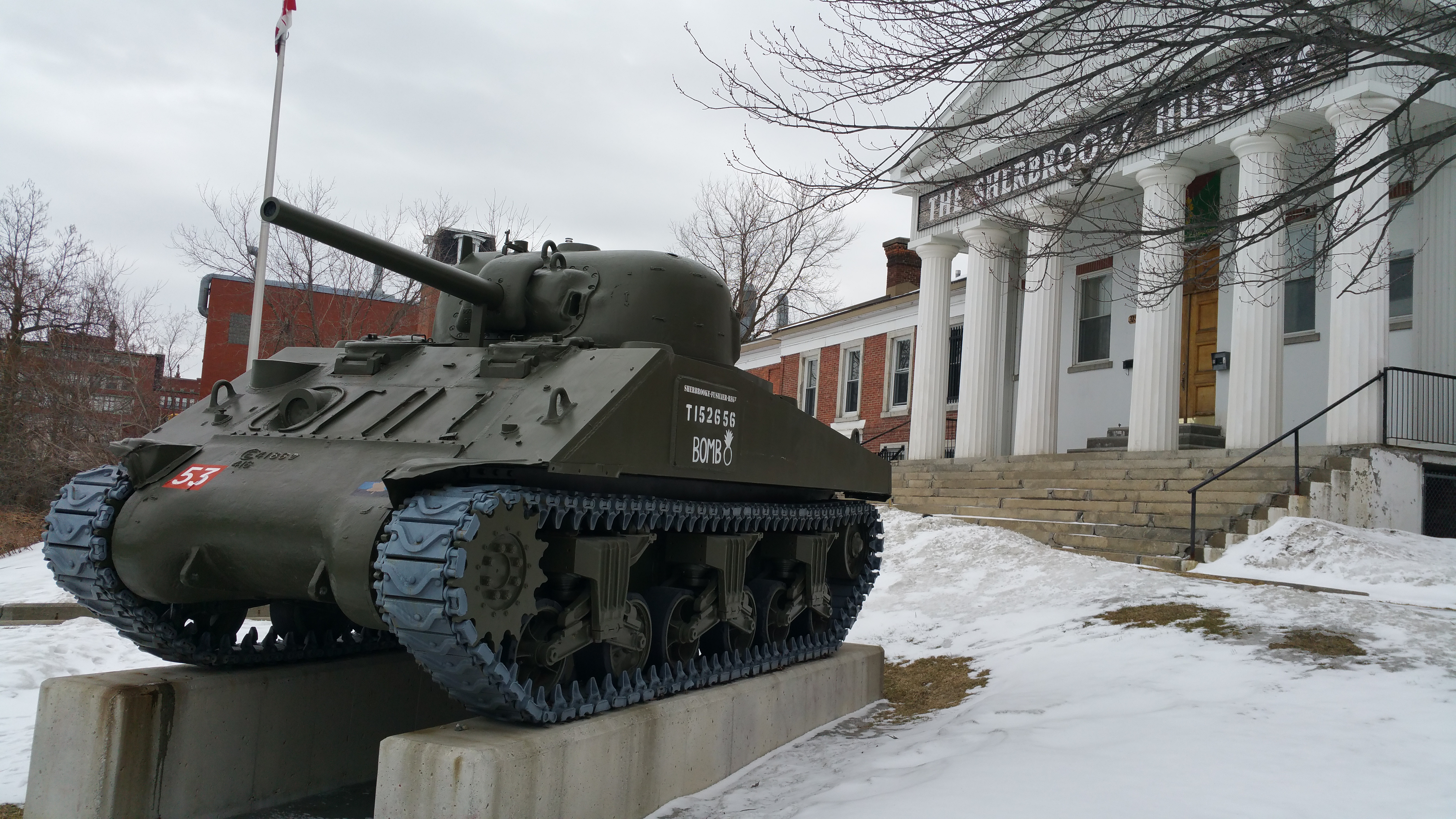 Picture of Bomb, a Canadian Army Sherman Tank. It is preserved in Sherbrooke, QC. Seen here in april 2015.